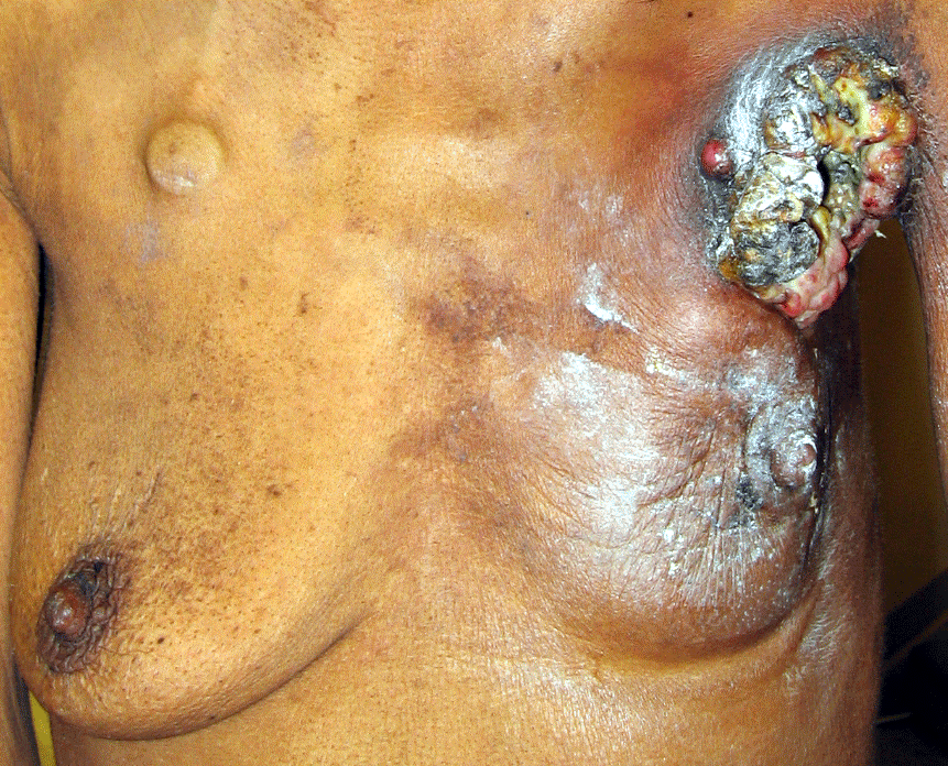 Recurrent breast cancer